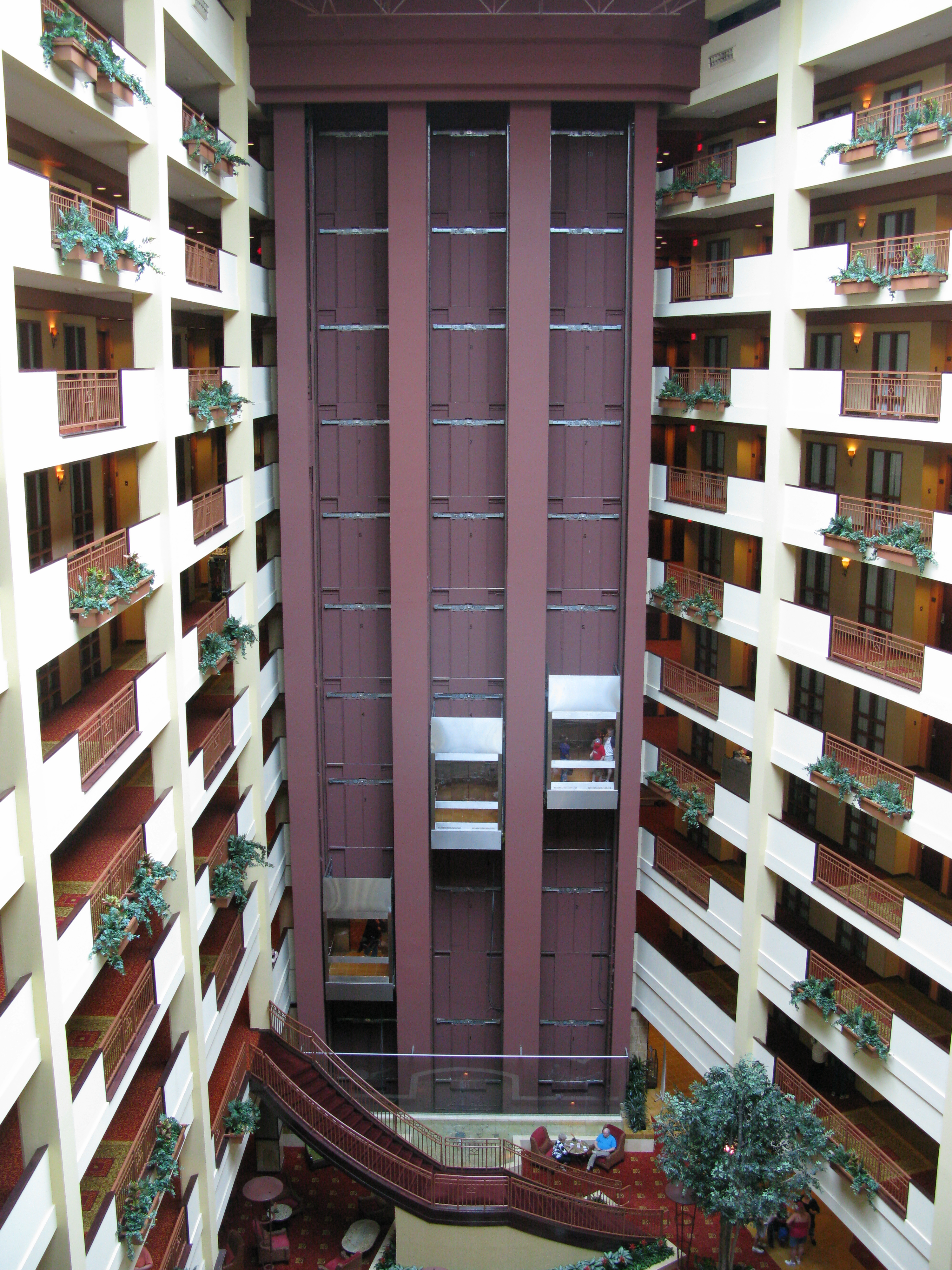 Hotel elevators. Huntsville AL